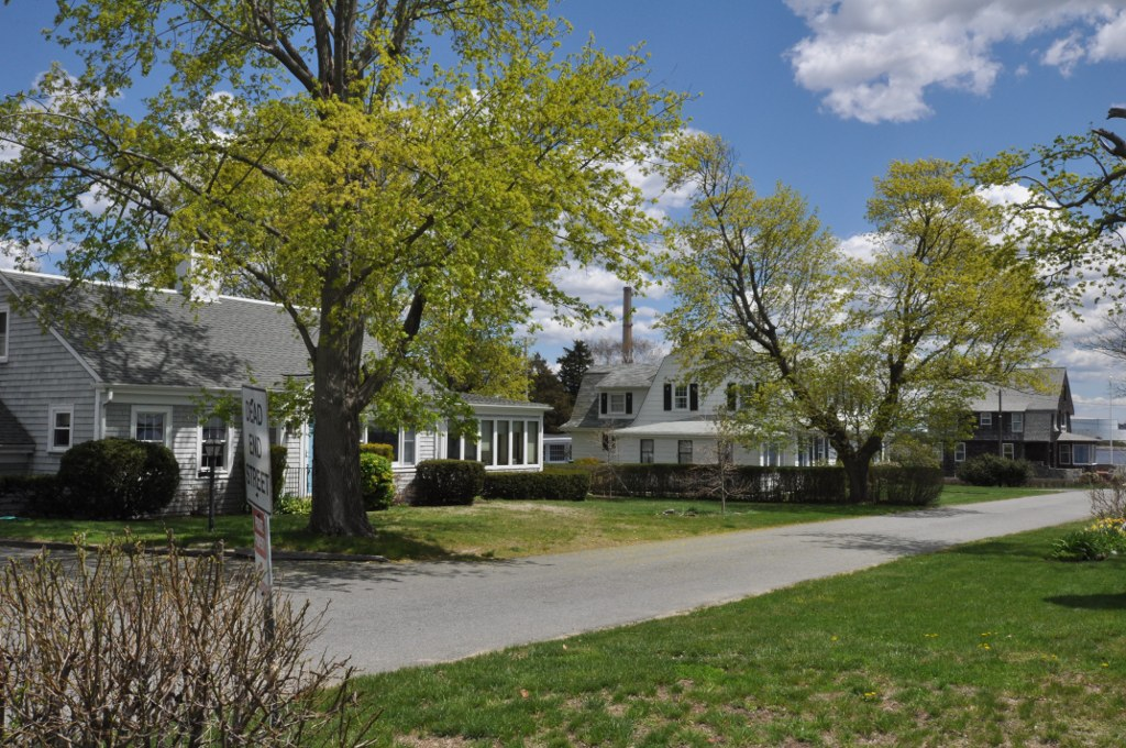 Houses on Mattapoisett Avenue, Swansea, Massachusetts. Part of the Colony Historic District.